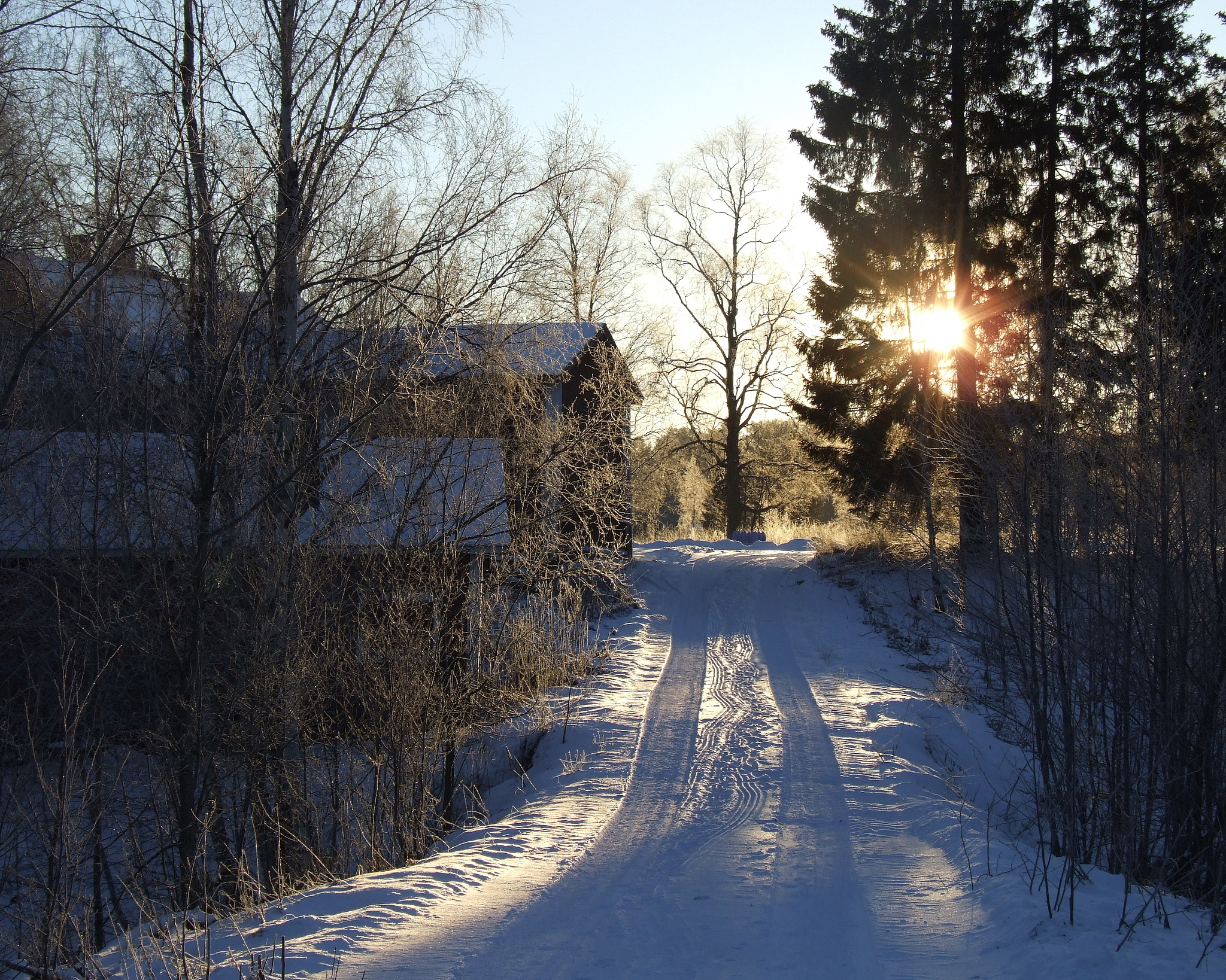 Path to Sculpture Park Saarela in Oulu, Finland.